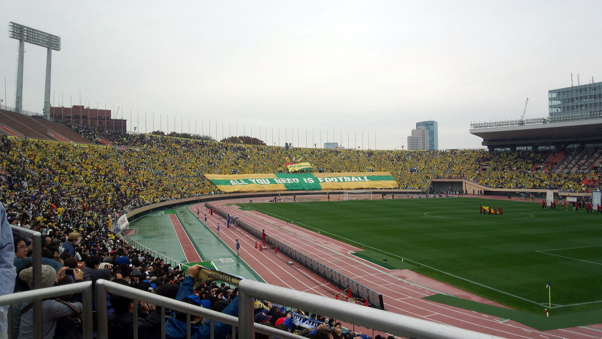 J1 play-off Final. Oita Trinita vs Jef United Chiba at KokuritsuKasumigaoka stadium.